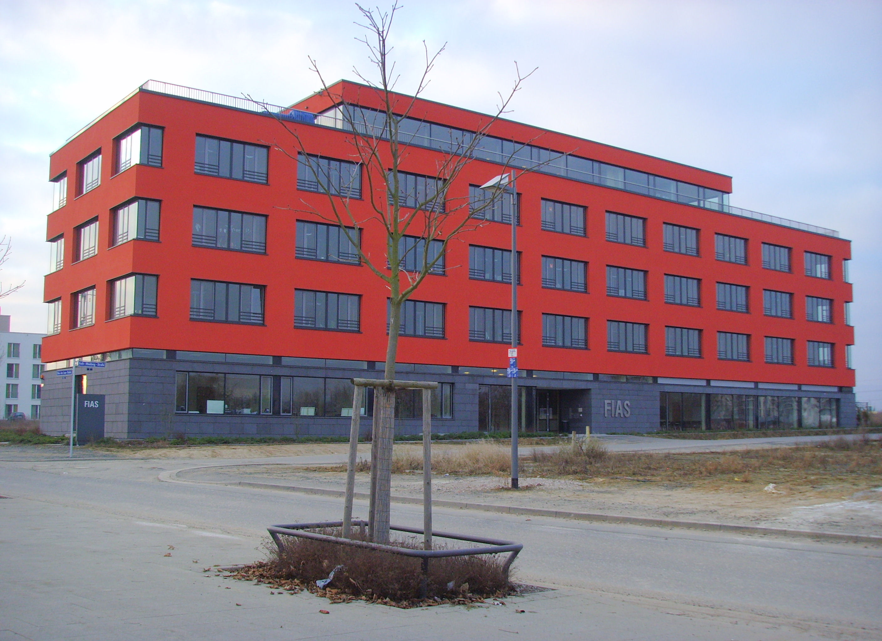 Frankfurt Institute for Advanced Studies, University Campus Riedberg